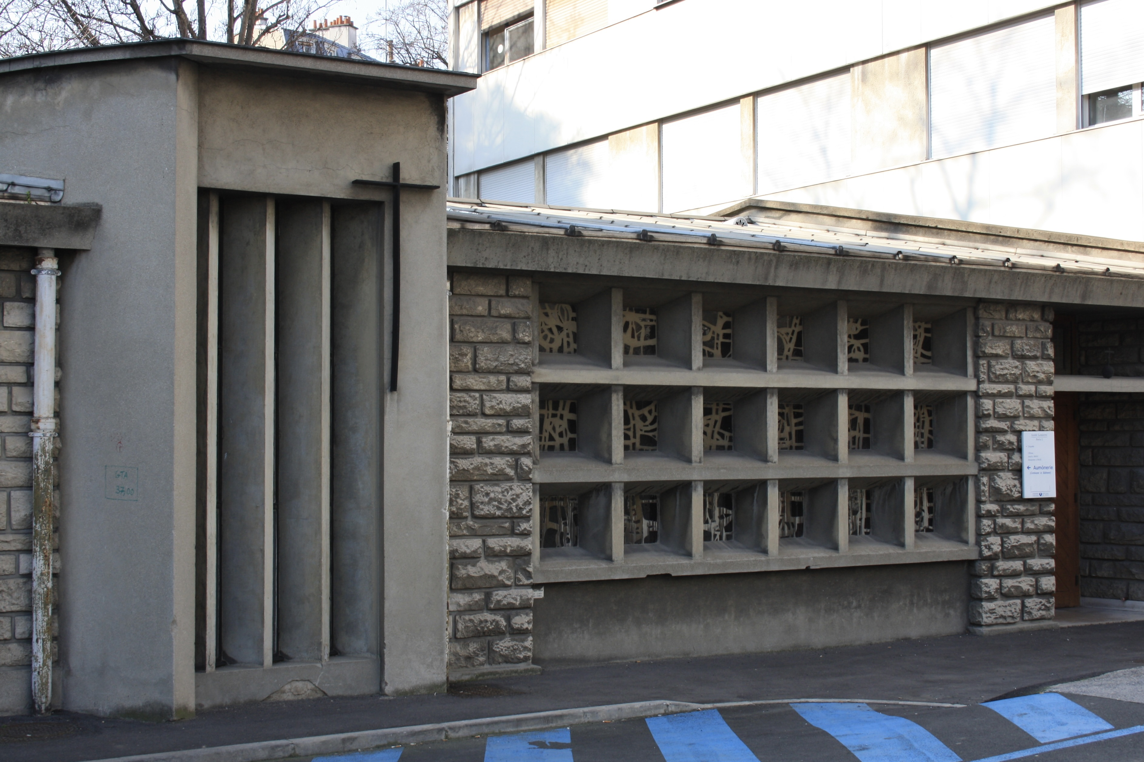 Church inside the Saint-Antoine hospital in Paris, France